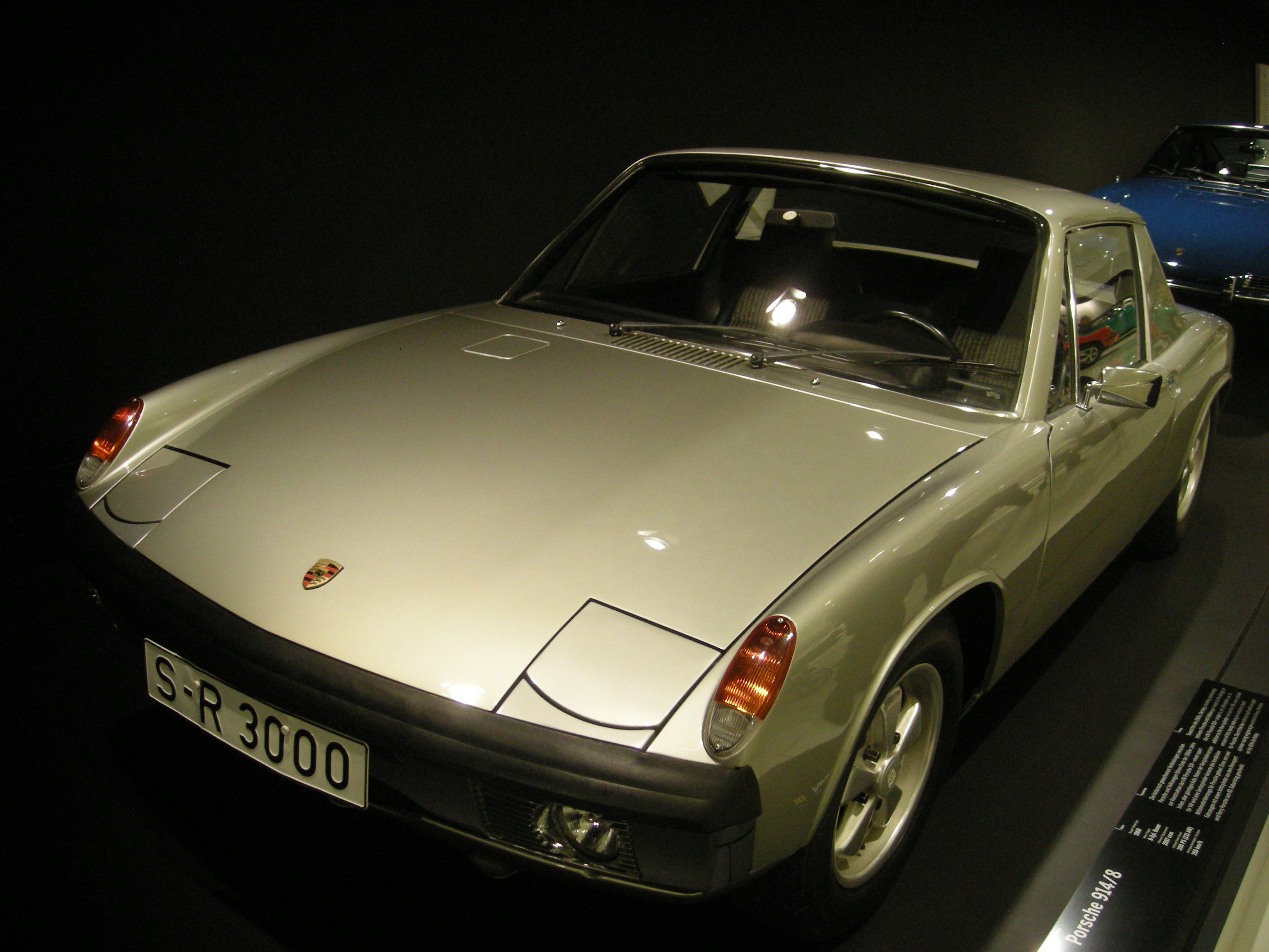 A 1969 Porsche 914/8 inside the Porsche Museum in Stuttgart, Baden-Württemberg (Germany).